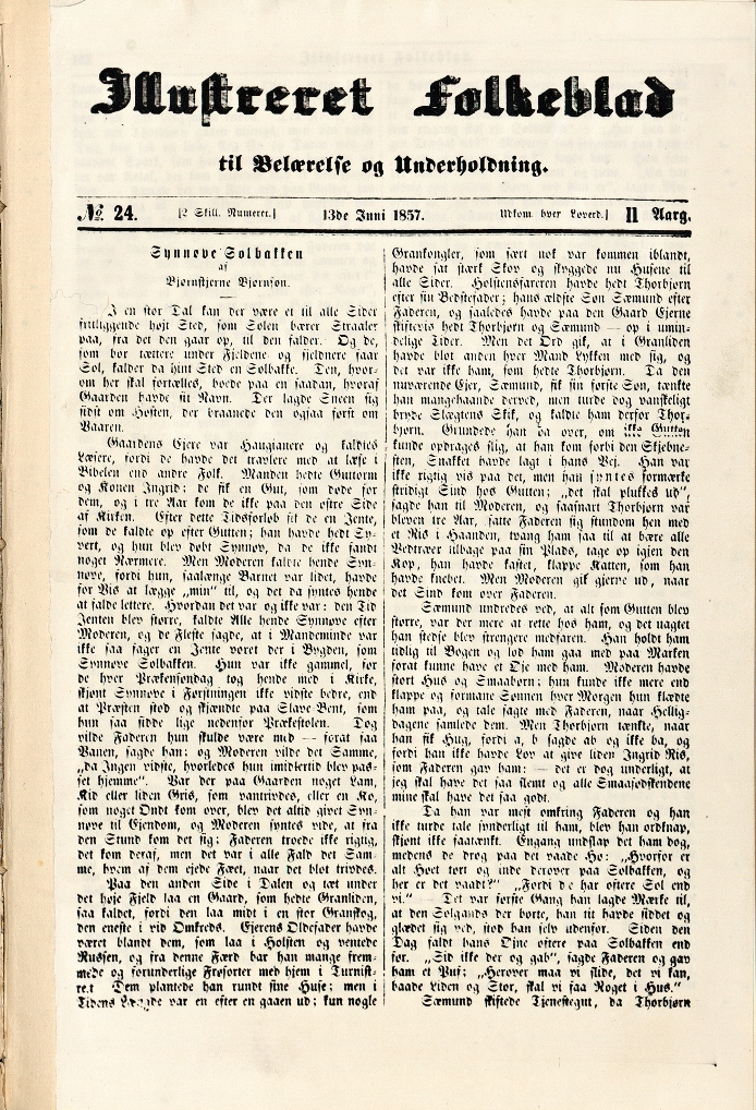 Norwegian weekly Illustreret Folkeblad. First printing of Bjørnstjerne Bjørnson's Synnøve Solbakken.